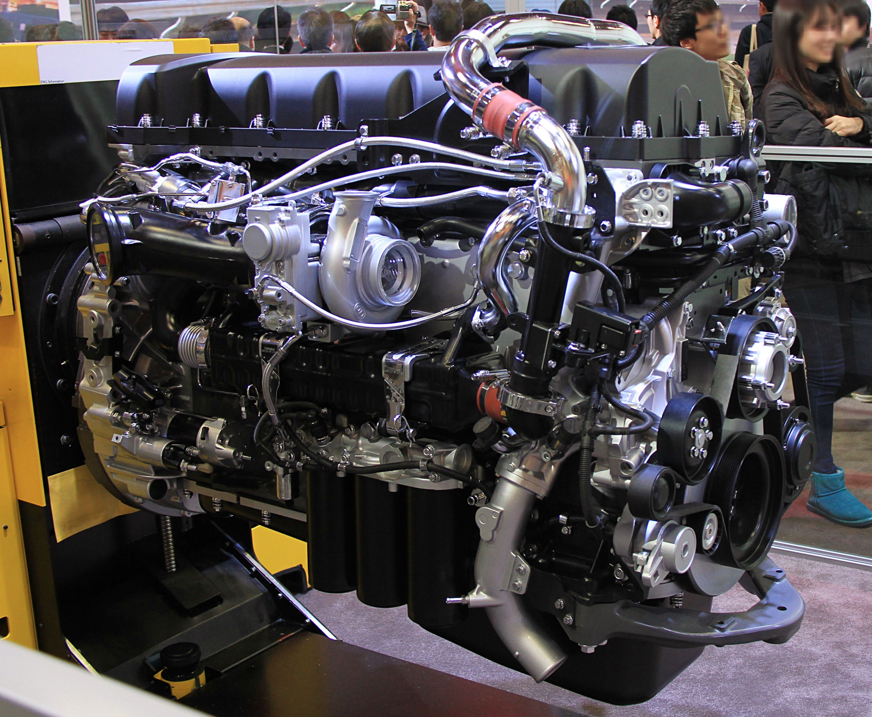 UD GH13